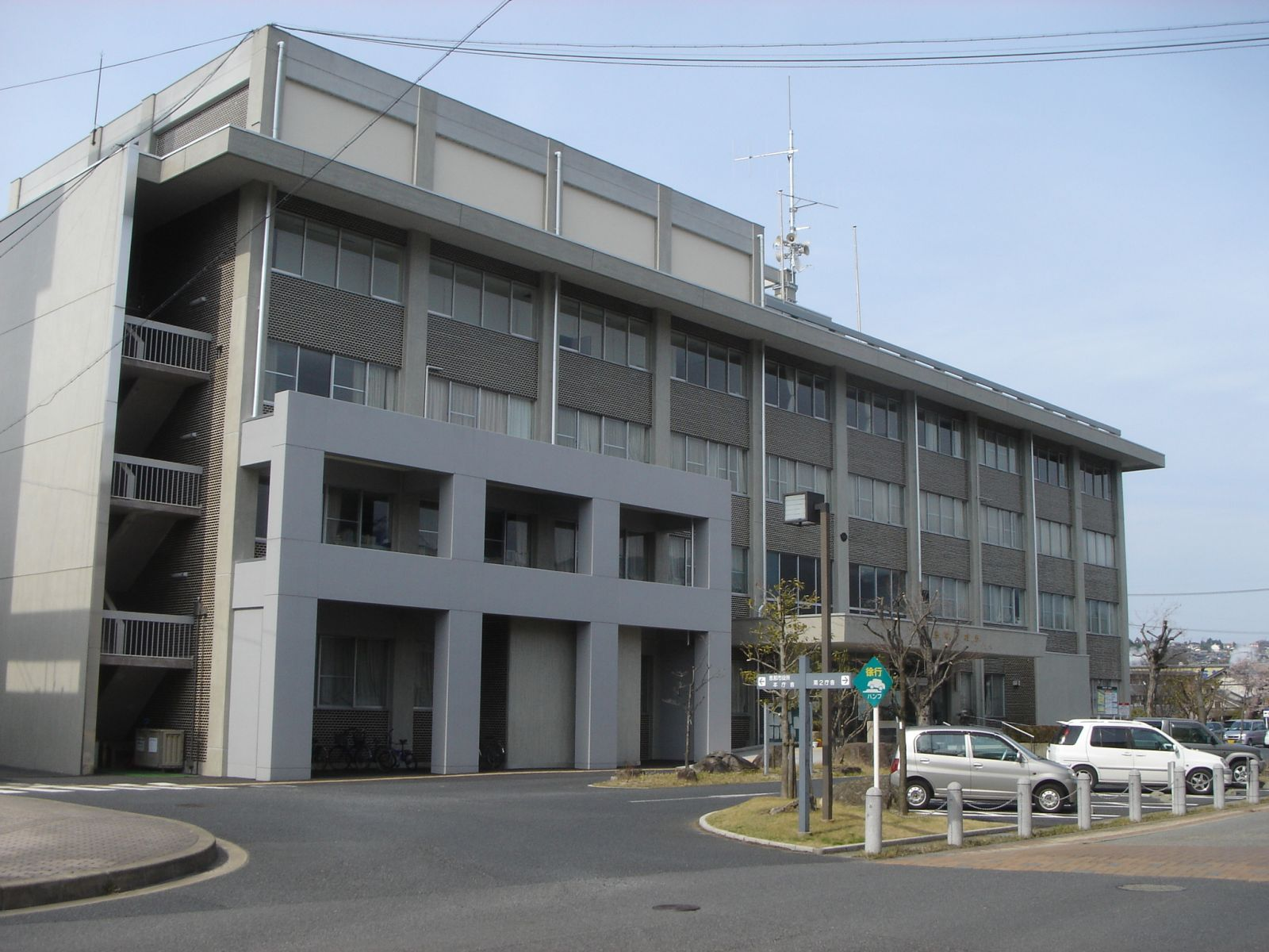 Ena City hall（恵那市市役所）,Ena,Gifu,Japan(岐阜県恵那市)で撮影。